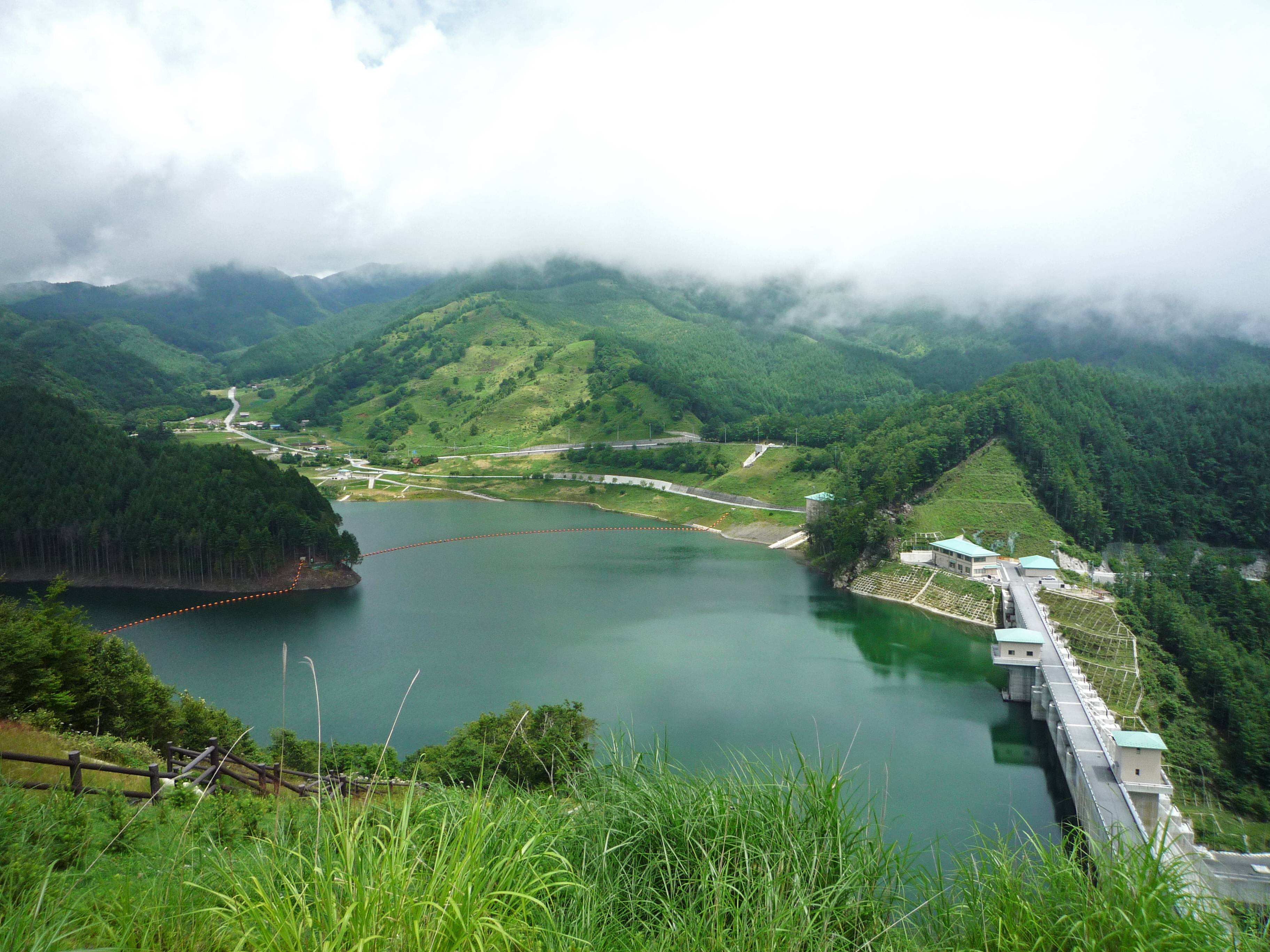 Kotogawa Dam and lake.